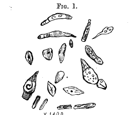 Cells from a sample of red wine, engraving from a paper by Henry James Slack in Transactions of the Royal Microscopical Society vol. 16, p. 36, On a Microscopic Ferment found in French Red Wine.